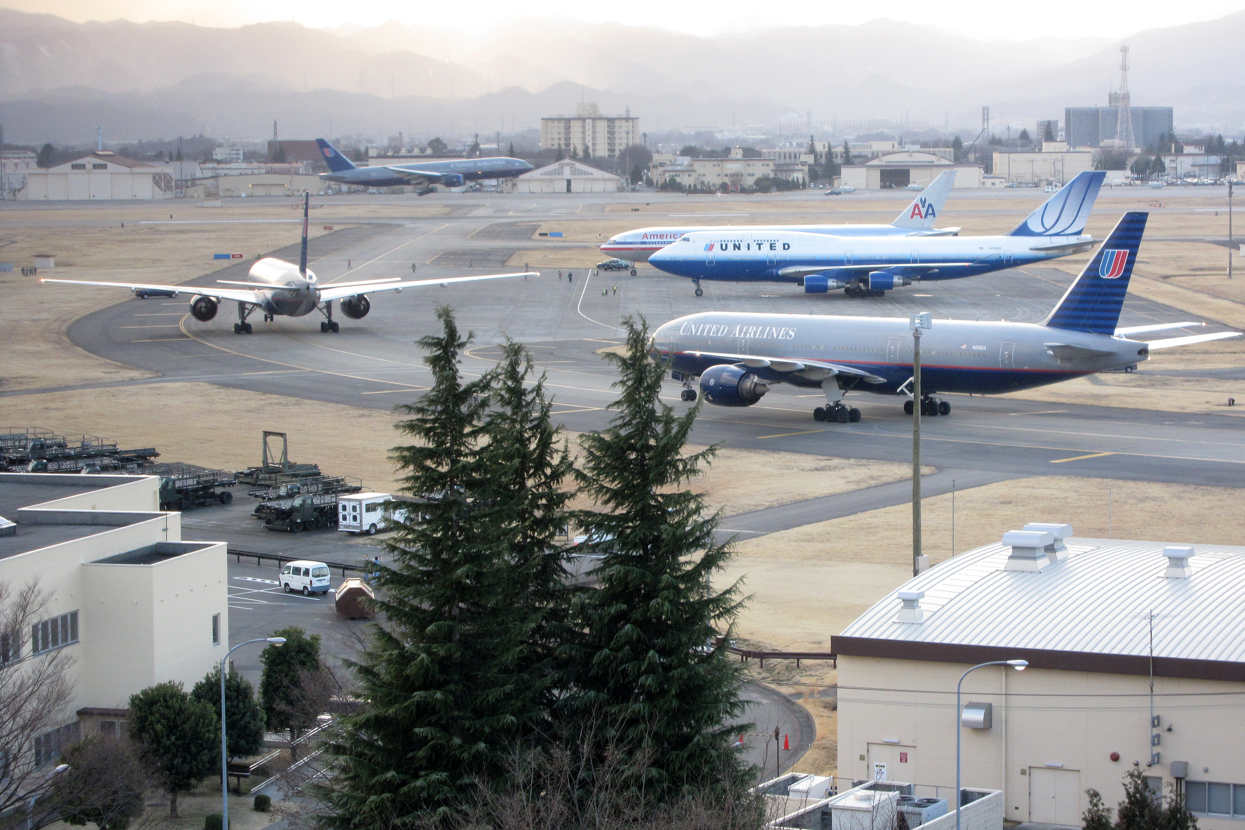 Several commercial aircraft are shown at Yokota Air Base, Japan, March, 11, 2011, after diverting from Narita International Airport near Tokyo. Narita closed after a magnitude 8.9 earthquake struck mainland Japan in midafternoon.